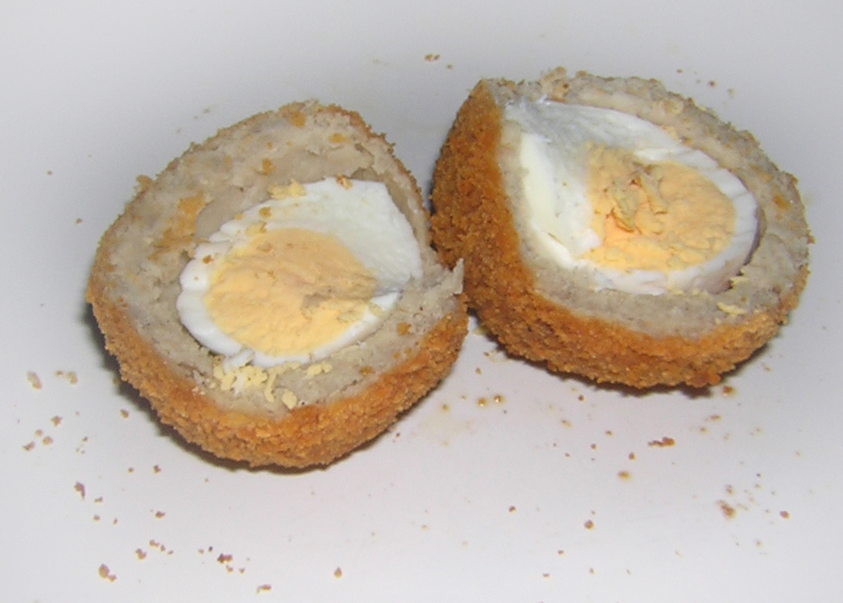 Inside a scotch egg.